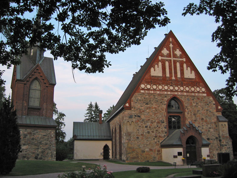 St. Lawrence Church in Vantaa, Finland.